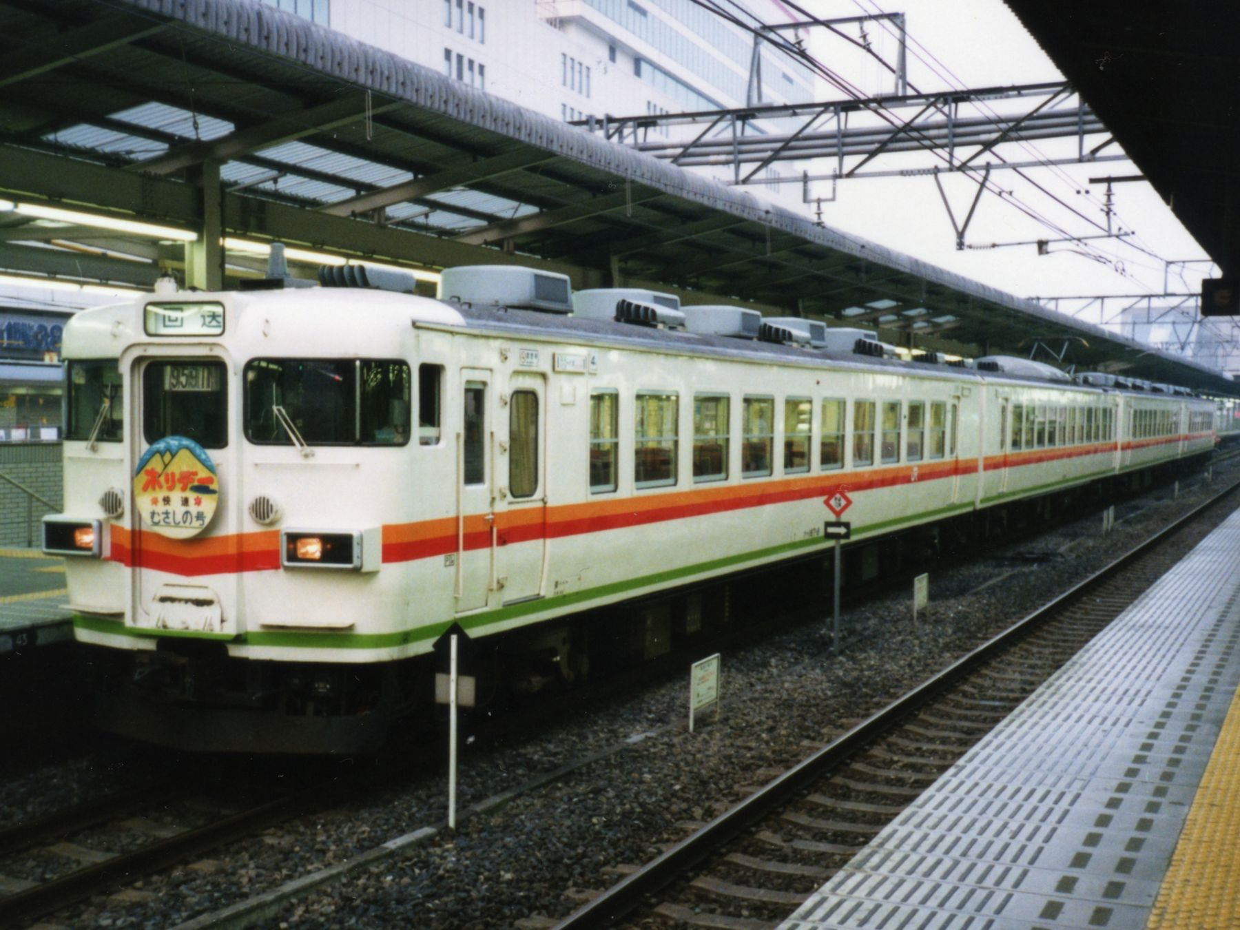 A JR East 167 series 4-car EMU at Ikebukuro Station